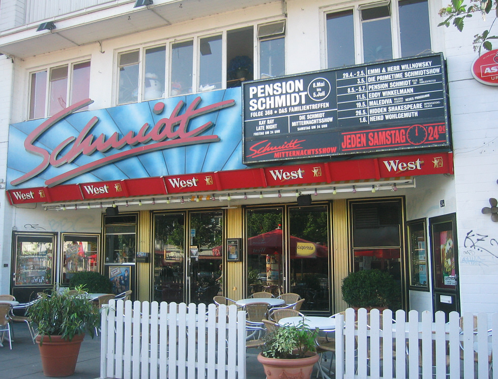 Hamburg, Germany: Schmidt-Theater (demolished in 2004 and subsequently replaced by a new theatre building) Note: The building is not identical with the Schmidts Tivoli theatre.